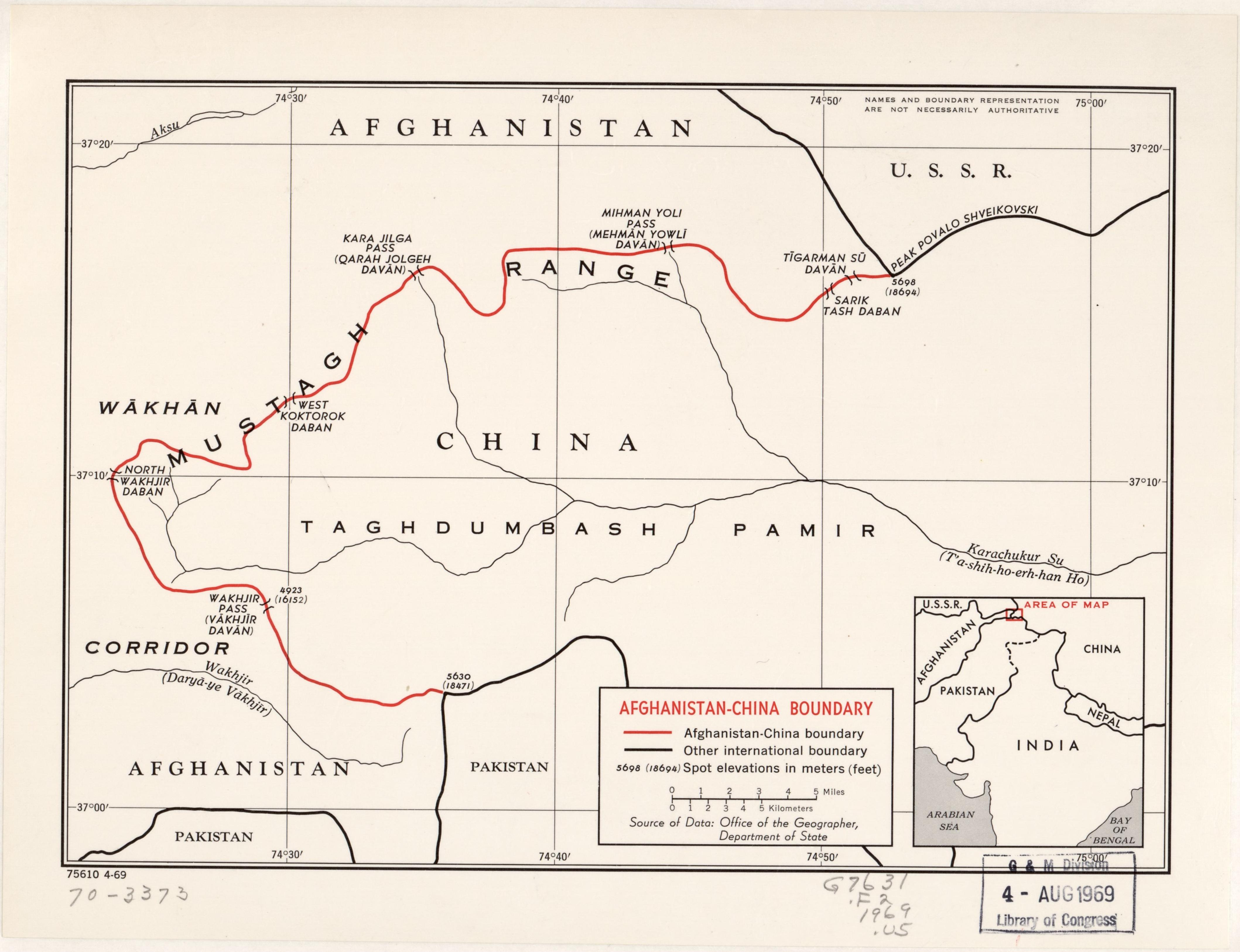 Cropped version of the original created to be suitable for consumption by the readers on Wikipedia